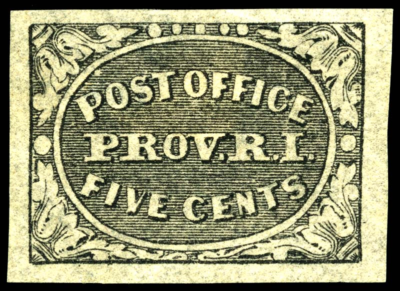 United States Providence provisional stamp of 1846